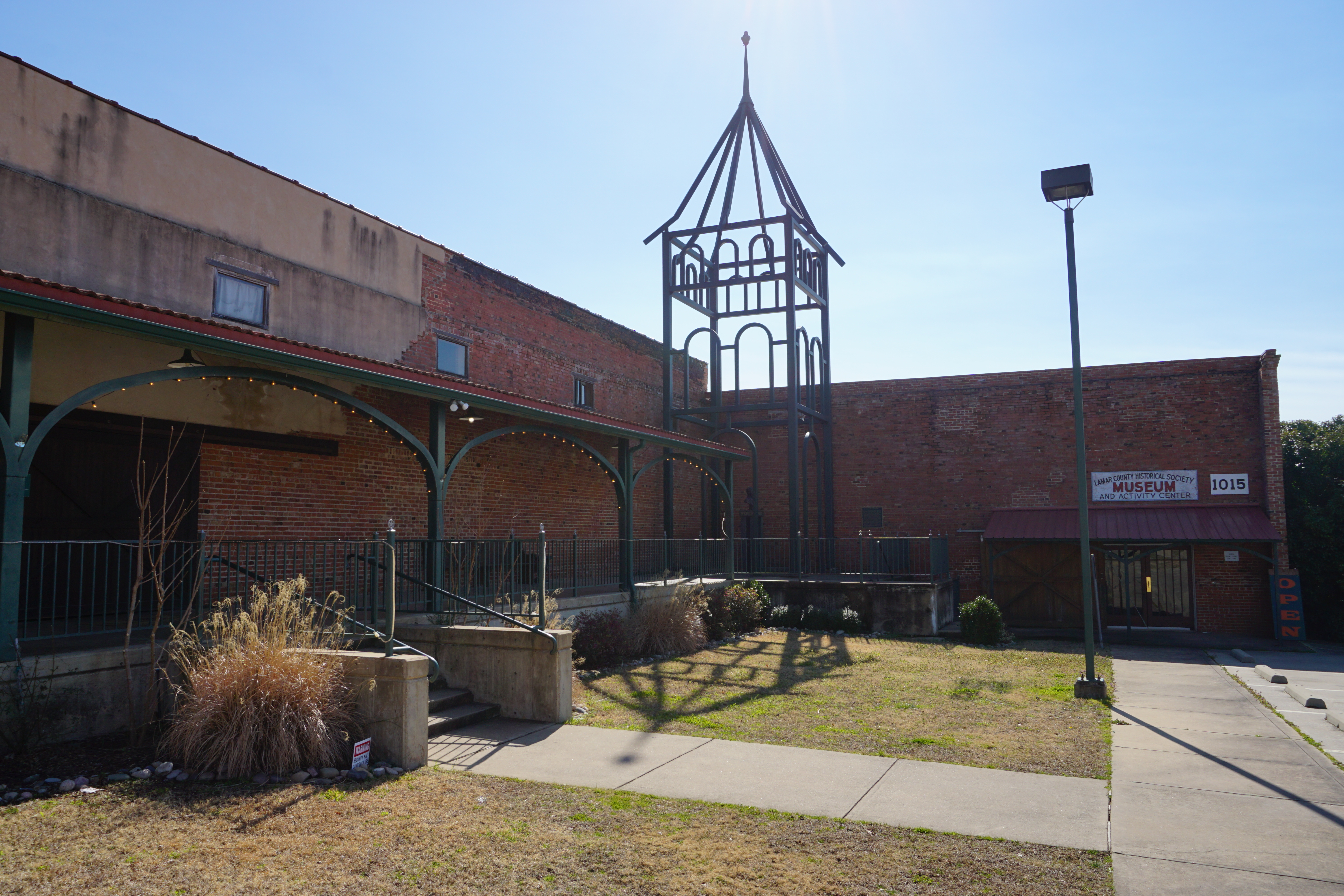 The exterior of the Lamar County Historical Museum in Paris, Texas (United States).